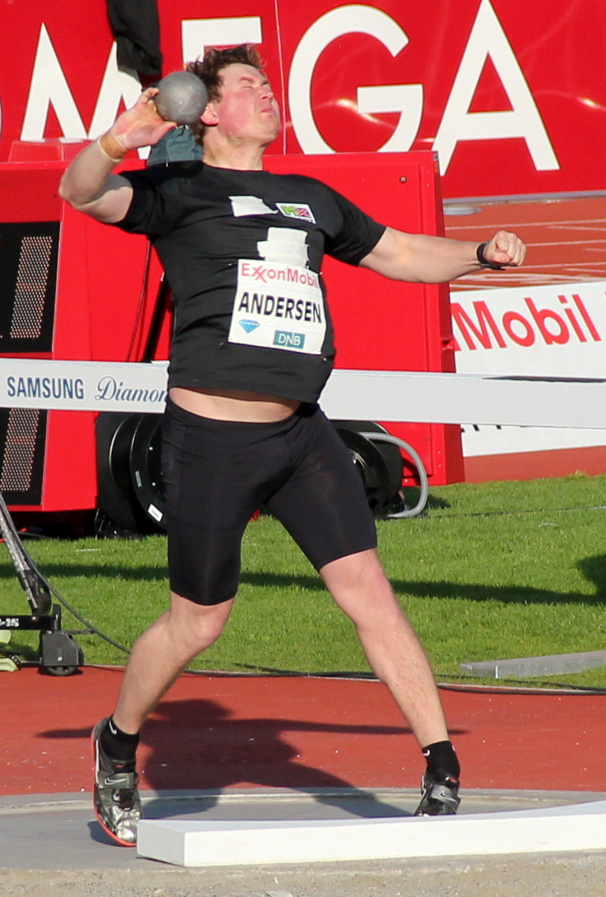 Stian Andersen at 2012 Bislett Games